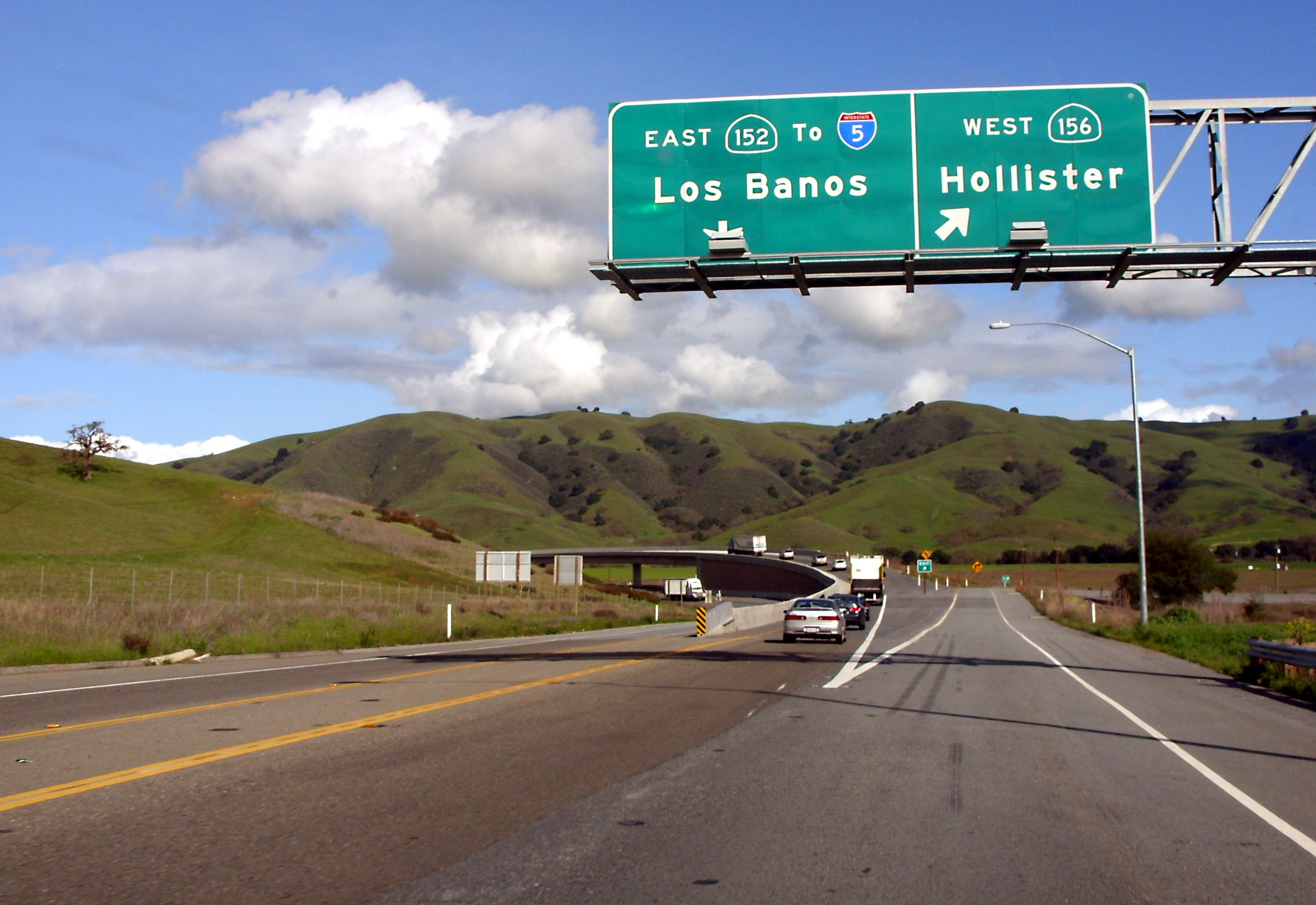 Drivers on California State Route 152 in Santa Clara County follow an overpass channeling traffic from the Gilroy area toward the Pacheco Pass, the main route connecting the southern San Francisco Bay Area and the Monterey Bay Area with the San Joaquin Valley. The overpass, which replaced an at-grade intersection, was completed in 2008 by the Santa Clara Valley Transportation Authority.